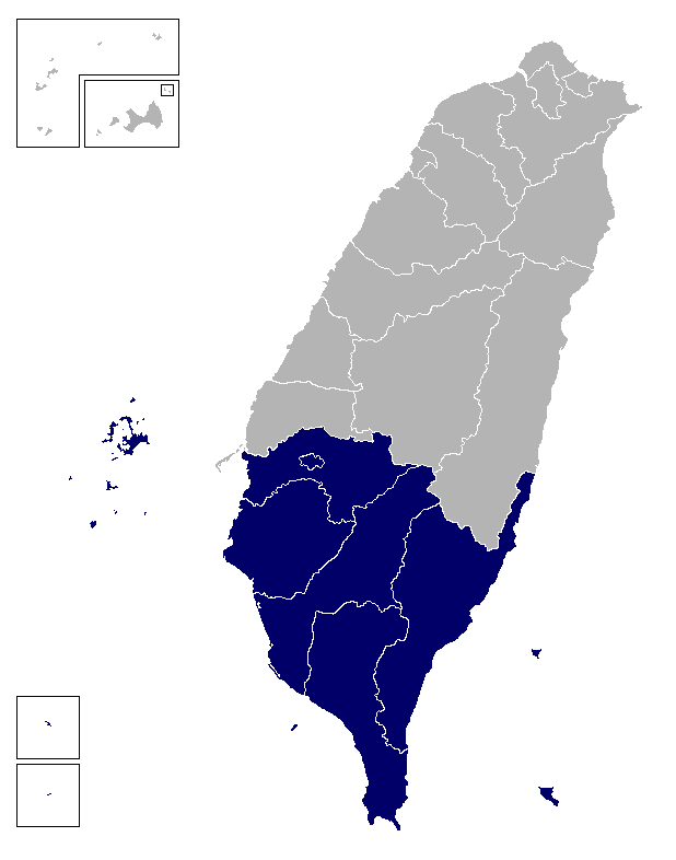 Consular district of the American Institute in Taiwan - Kaohsiung Branch Office中文（台灣）: 美國在臺協會高雄分處領區